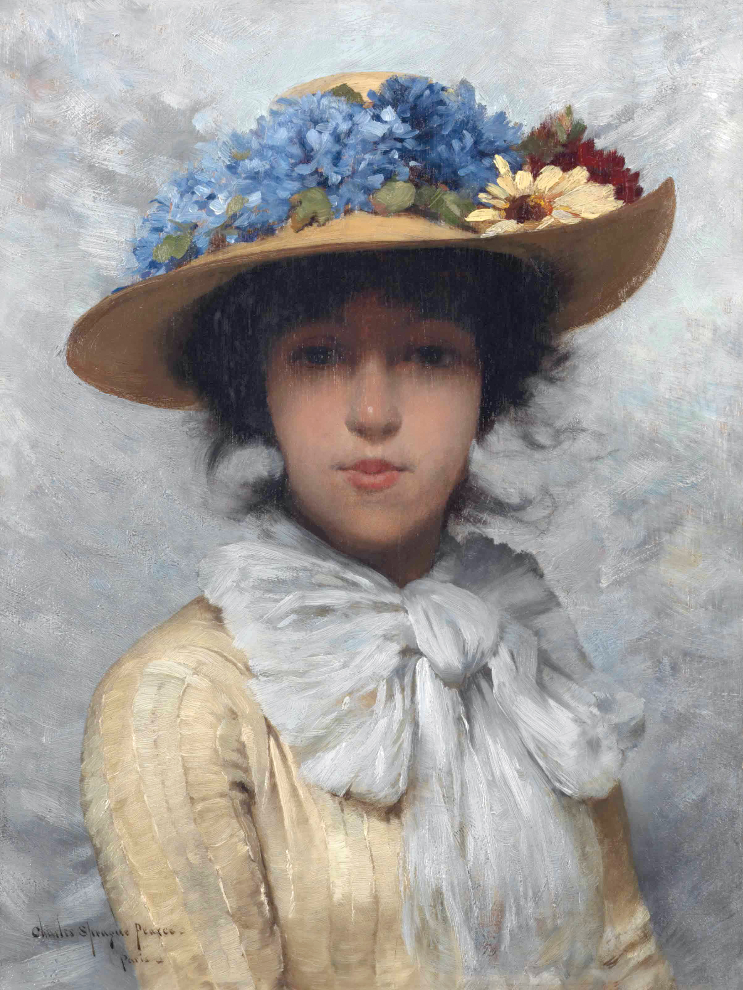 Woman in white dress and straw hat oil on cradled panel 35.2 x 26.4 cm signed b.l.: Charles Sprague Pearce./Paris-- circa 1880